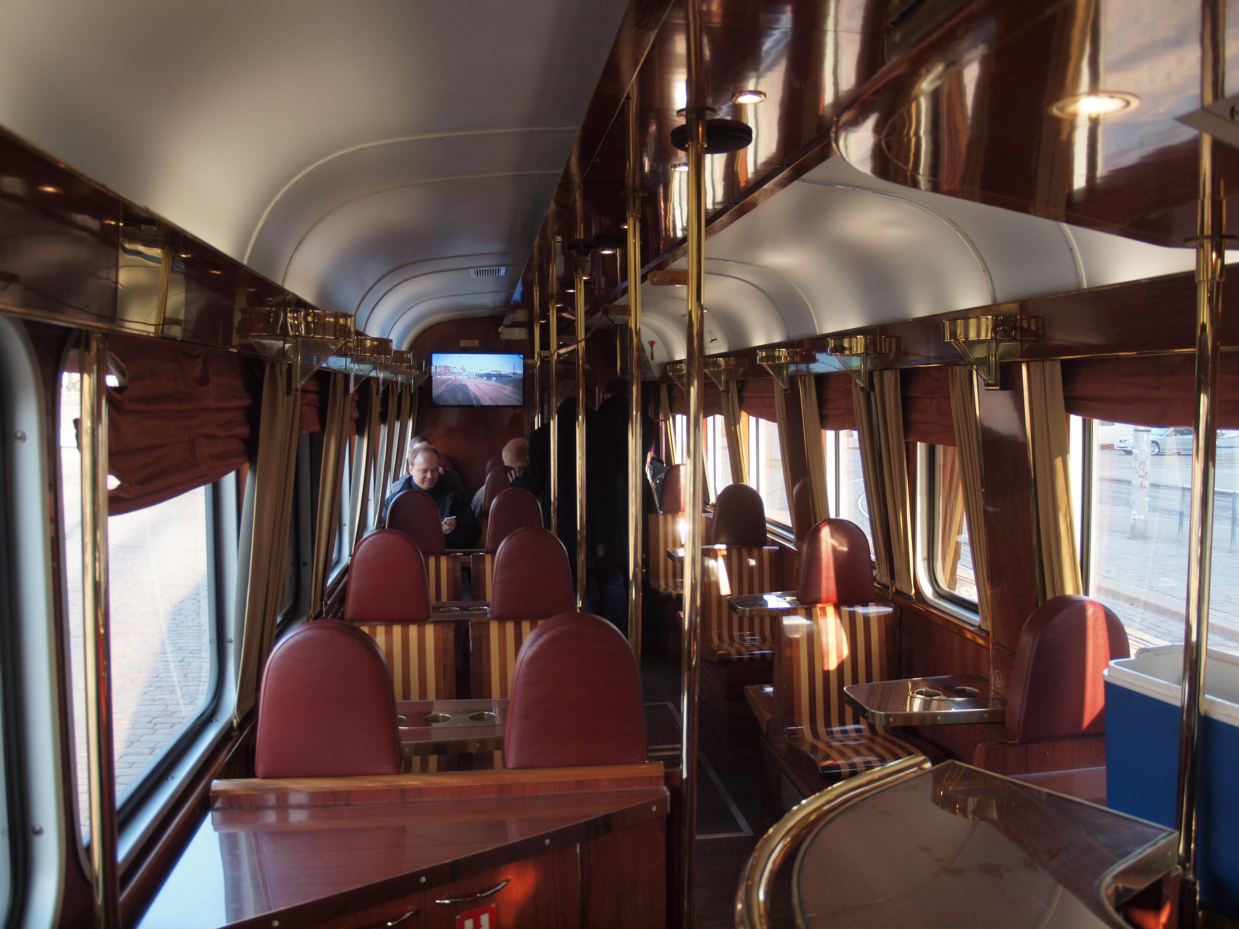 Interior of the Spårakoff pub tram in Helsinki, Finland, looking forwards towards the driver's cabin.